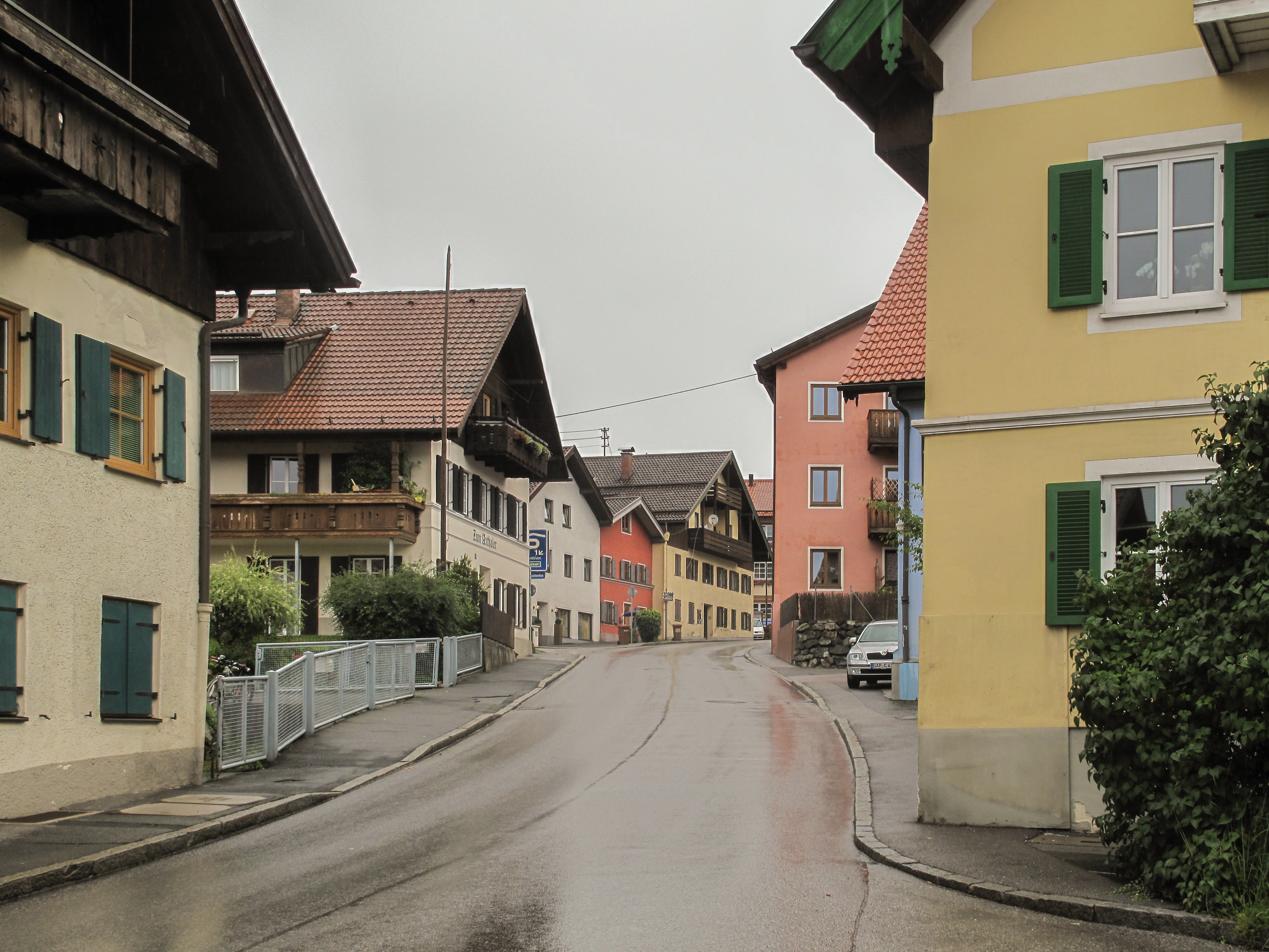 Murnau am Staffelsee, view to a street